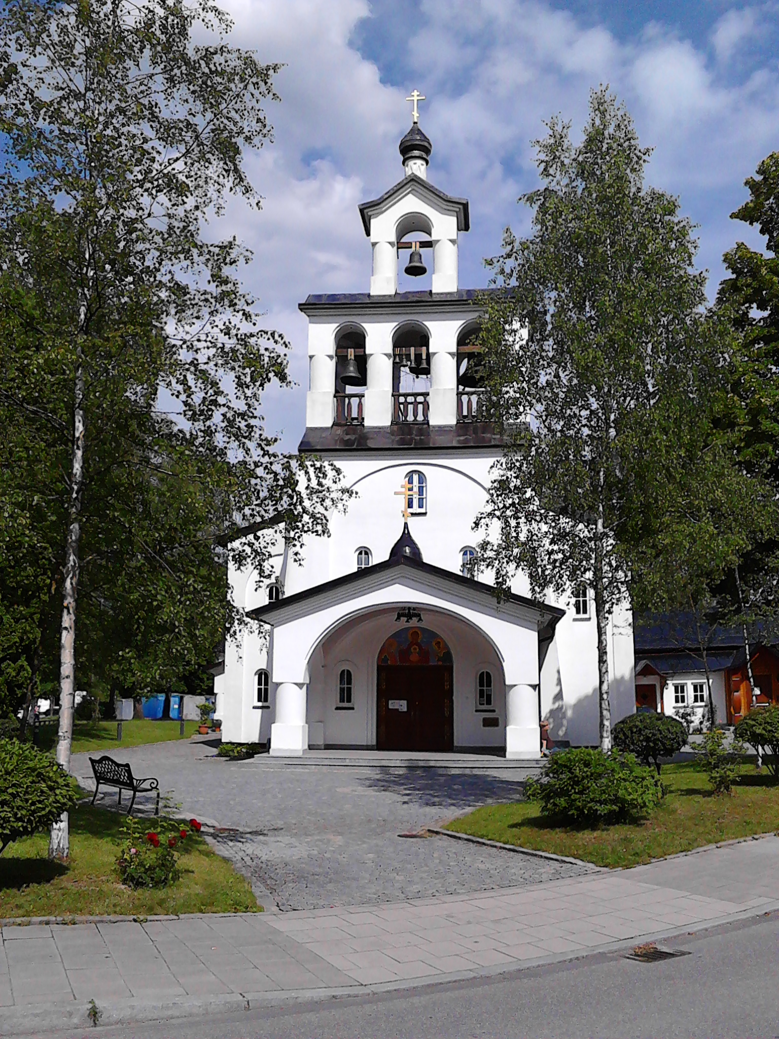 Cathedral of Saint New Martyrs, Munich